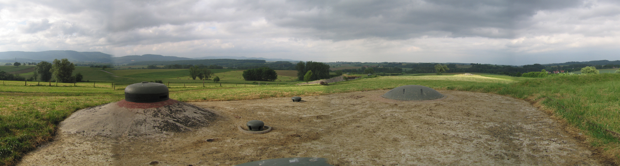 The view from a battery at Ouvrage Schoenenbourg in Alsace. Notice the retractable turret in the left foreground. Author: John C. Watkins V, uploaded to by User:Jorge1767